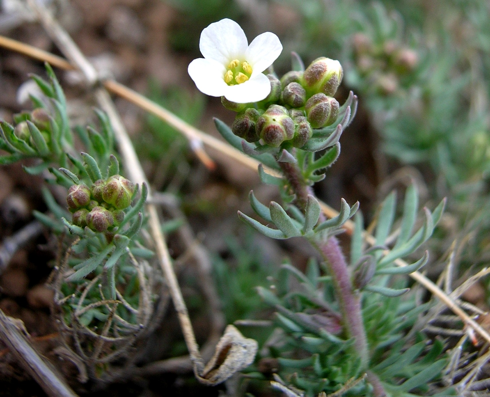 Polyctenium fremontii var. fremontii — Desert combleaf. In the Modoc National Forest, in the northeastern Great Basin region of California.